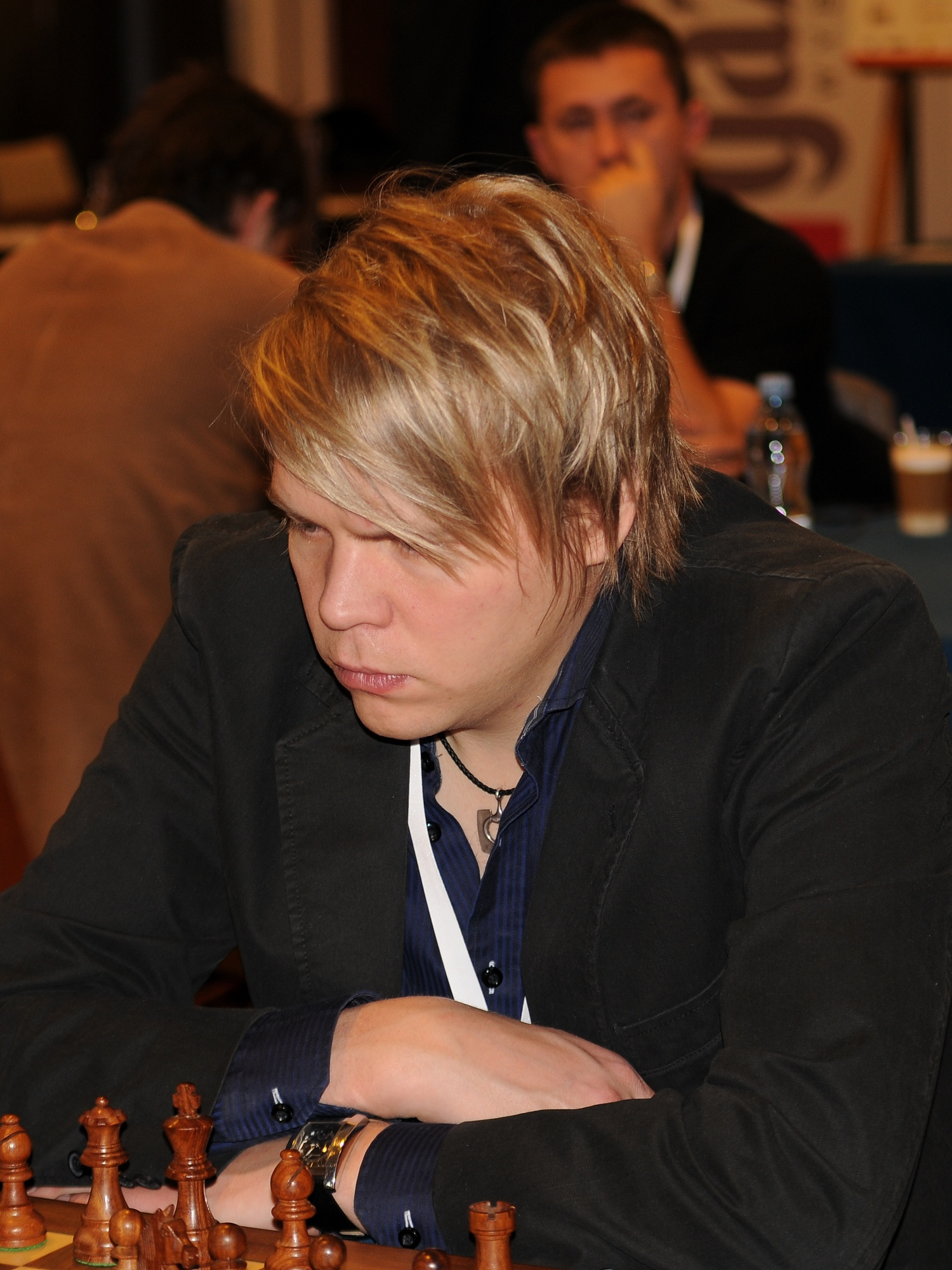 IM Mika Karttunen, European Chess Team Championship Warsaw 2013